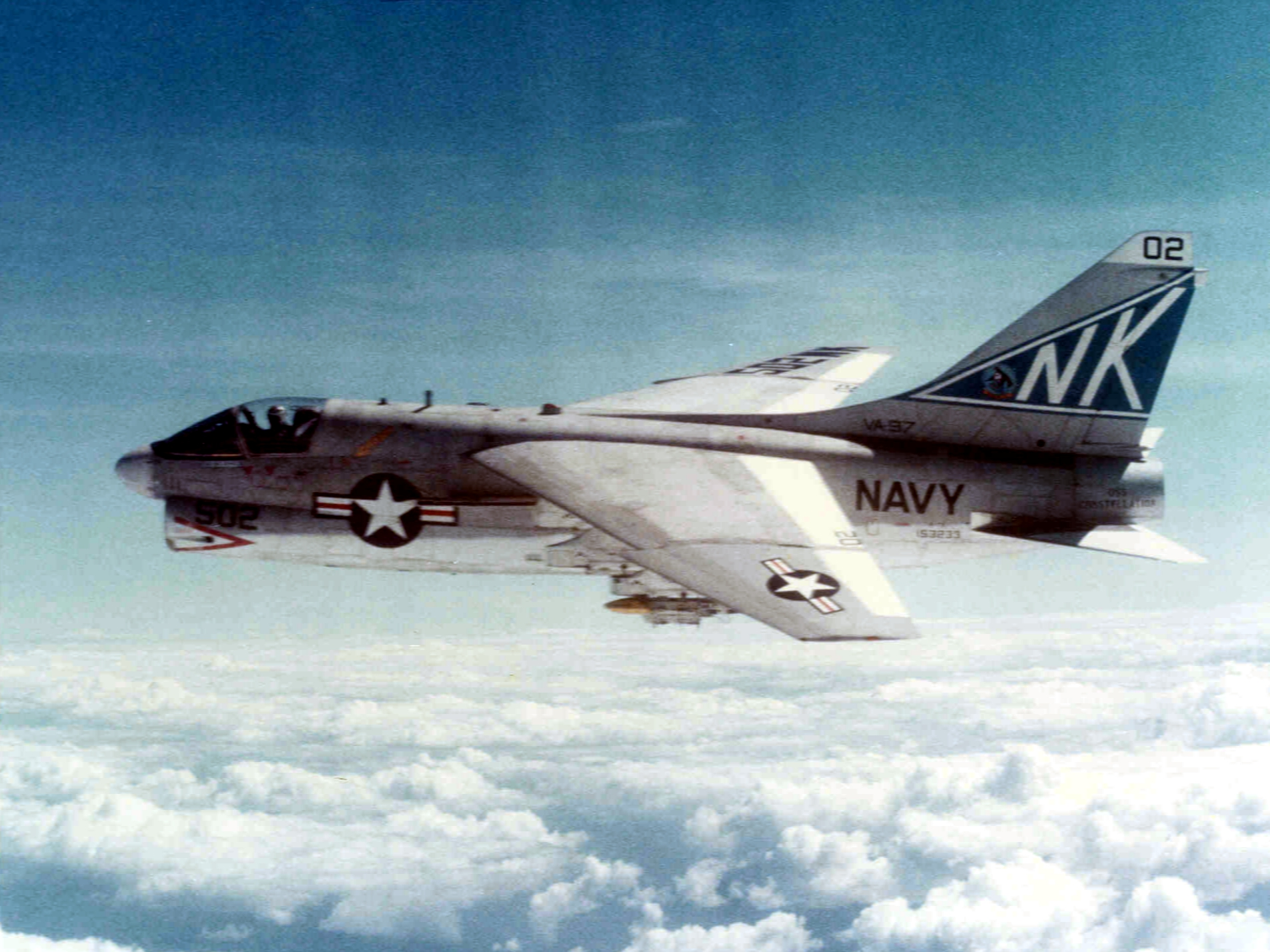 A U.S. Navy Ling-Temco-Vought A-7A-4b-CV Corsair II (BuNo 153233) of Attack Squadron VA-97 "Warhawks" over the Gulf of Tonkin, in 1968. For its first deployment, VA-97 was assigned to Carrier Air Wing 14 (CVW-14) aboard the aircraft carrier USS Constellation (CVA-64) for a deployment to Vietnam from 29 May 1968 to 31 January 1969.153233 was later shot down by flak near Ban Dakpok, 50 km north Muang Fangdeng, Laos, on 7 April 1970 while still in service with VA-97. The pilot ejected and was rescued by helicopter.